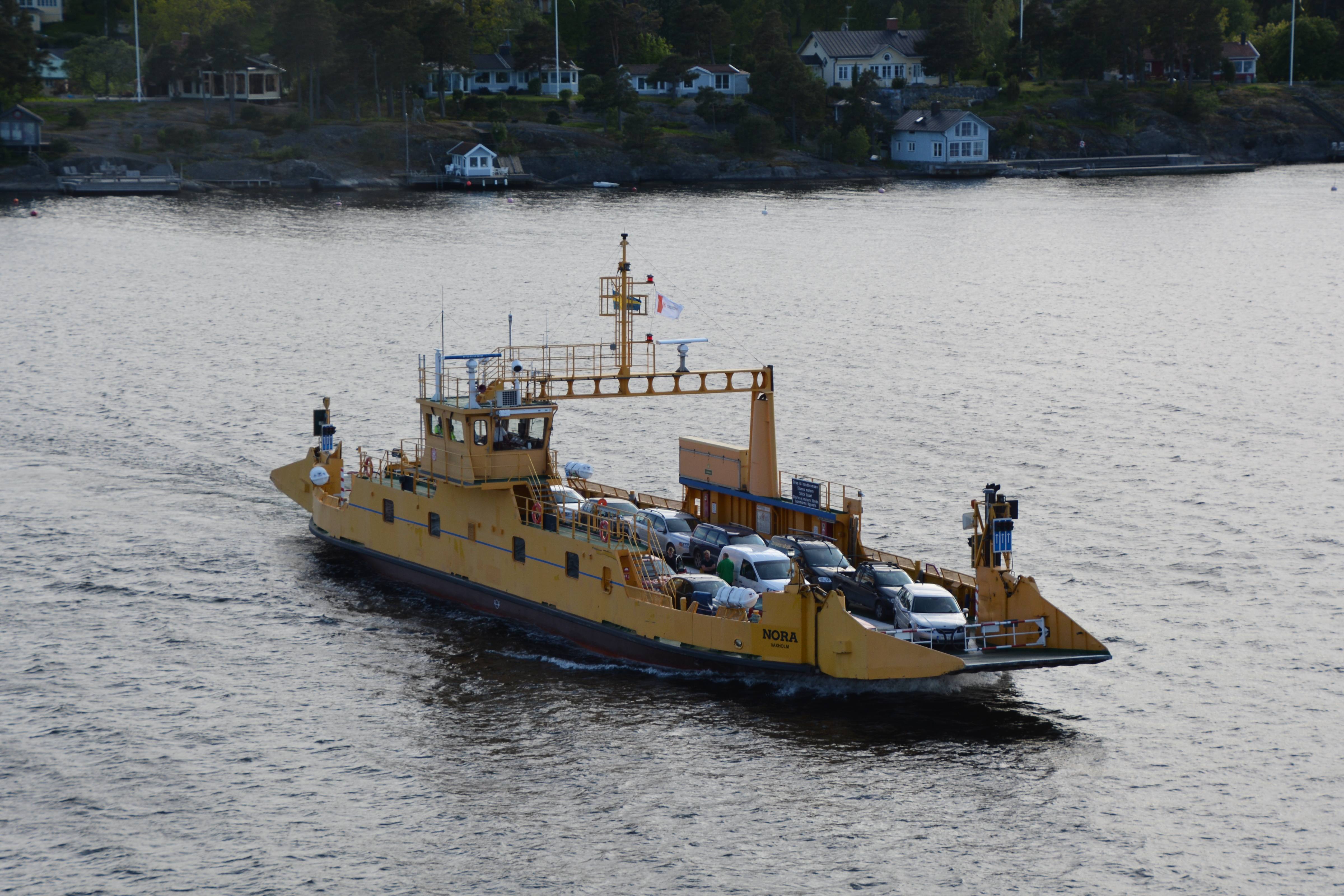 Ferry Nora, Tynningöleden, Stockholm archipelago